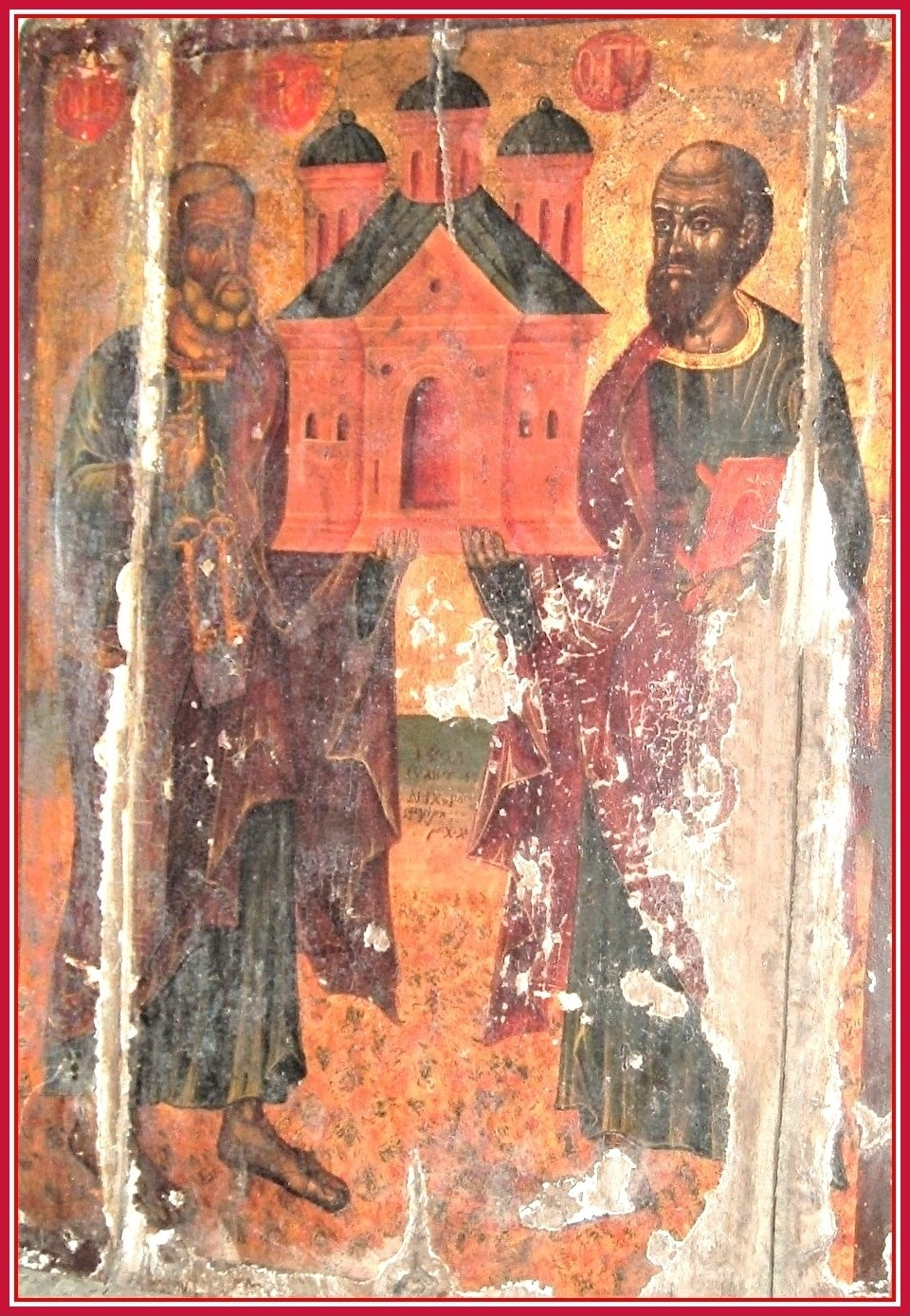 Sts Peter and Paul in Yanoveni Church 1827